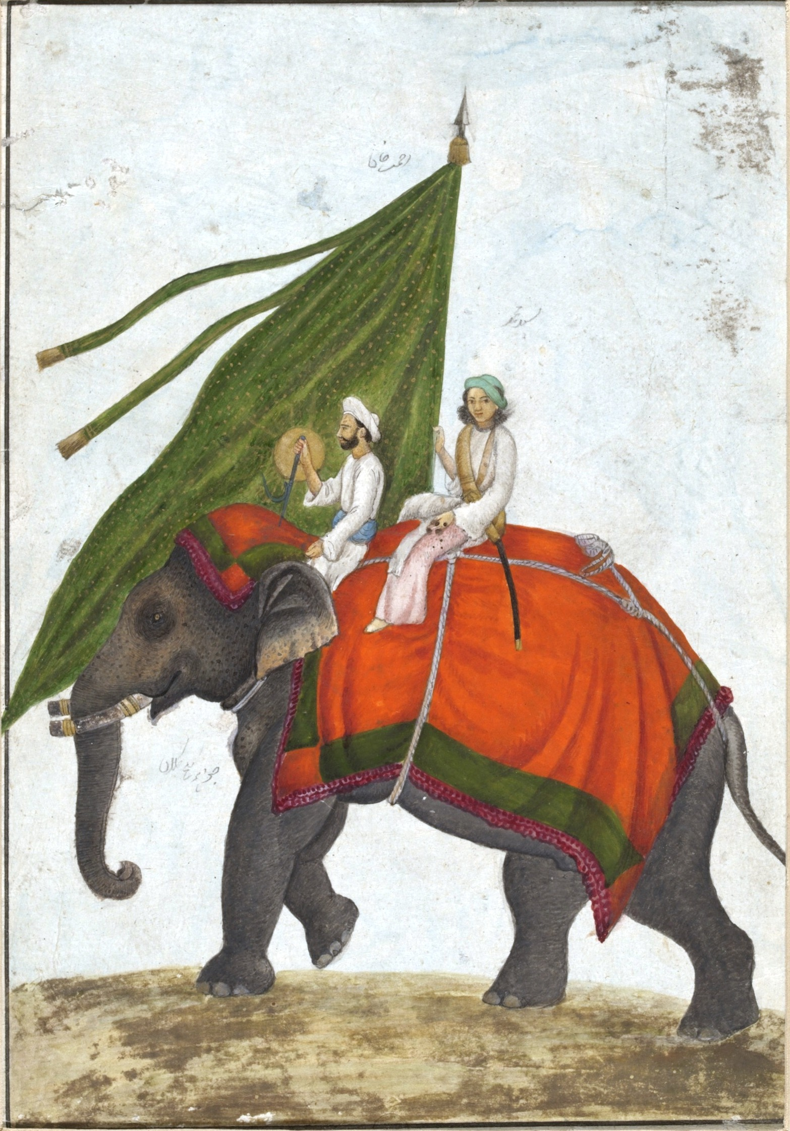 An elephant with a mahout and a standard-bearer carrying a green standard with a gold sun. One of a set of six images from the Mughal emperor's ceremonial procession on the occasion of Id.